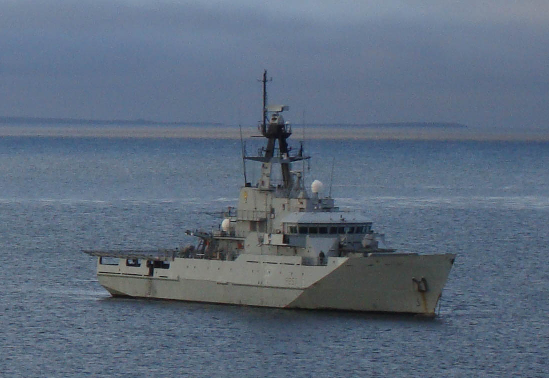 HMS Clyde at anchor in Fox Bay, West Falkland, July 2011